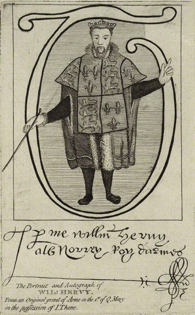 Portrait of William Harvey (1510–1567) was an English officer of arms.